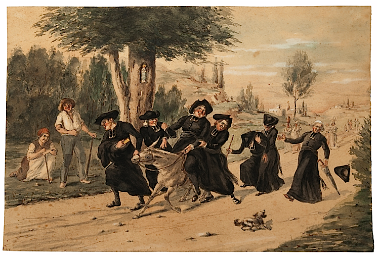 Le Retour de la conférence, watercolor before the execution of the [lost] painting.